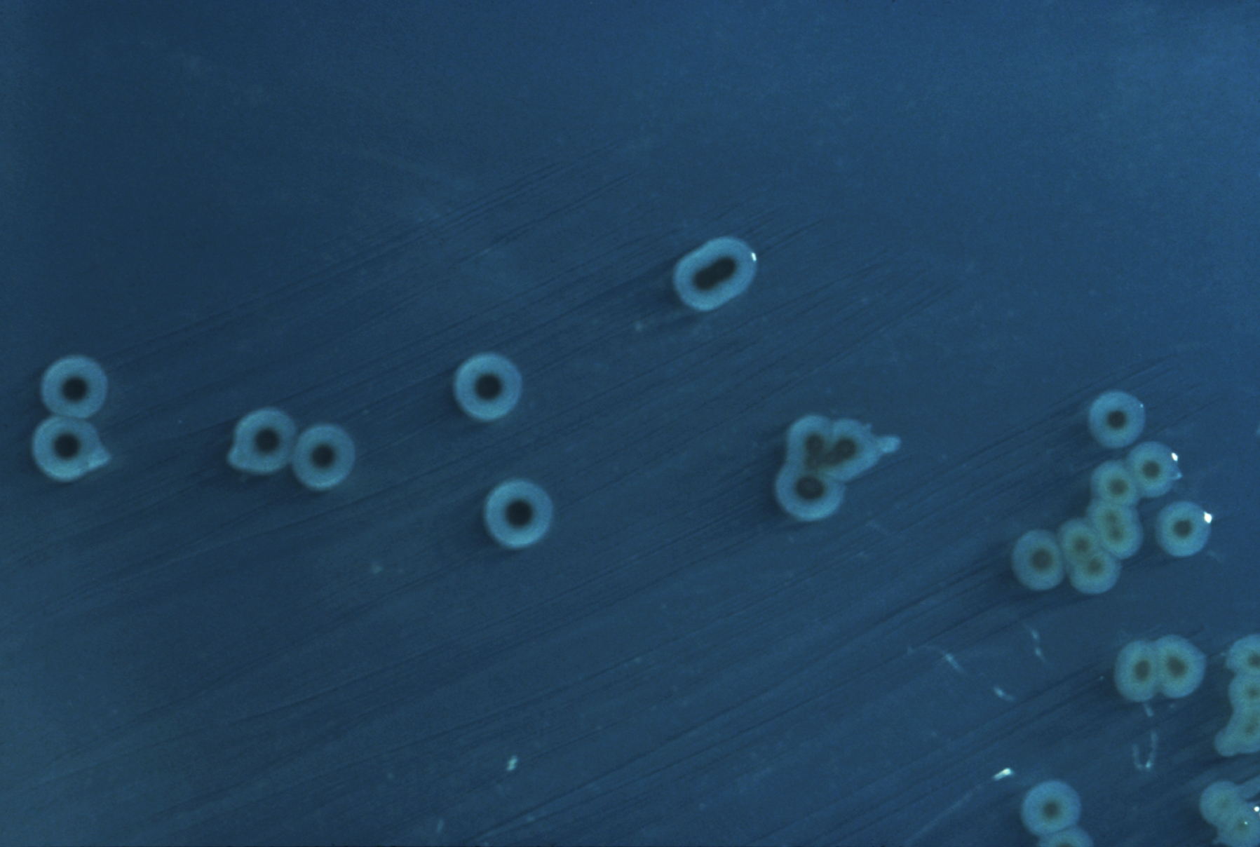 Colonies of pathogenic bacteria growing on an agar culture plate - Salmonella enterica (serovar typhimurium)